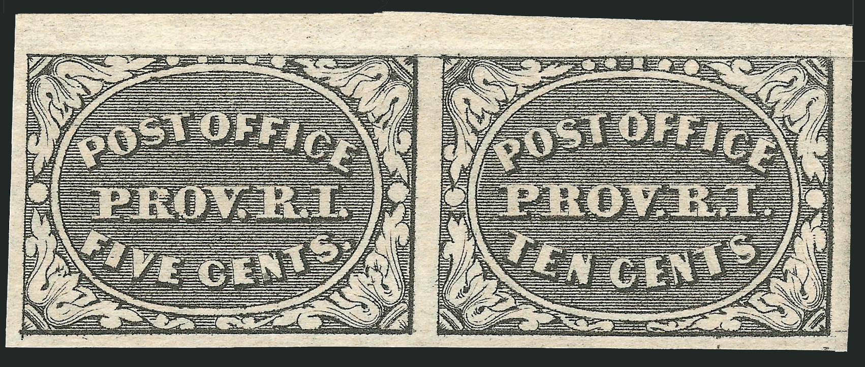 Providence R. I. Postmaster's Provisional stamps, 5c and 10c